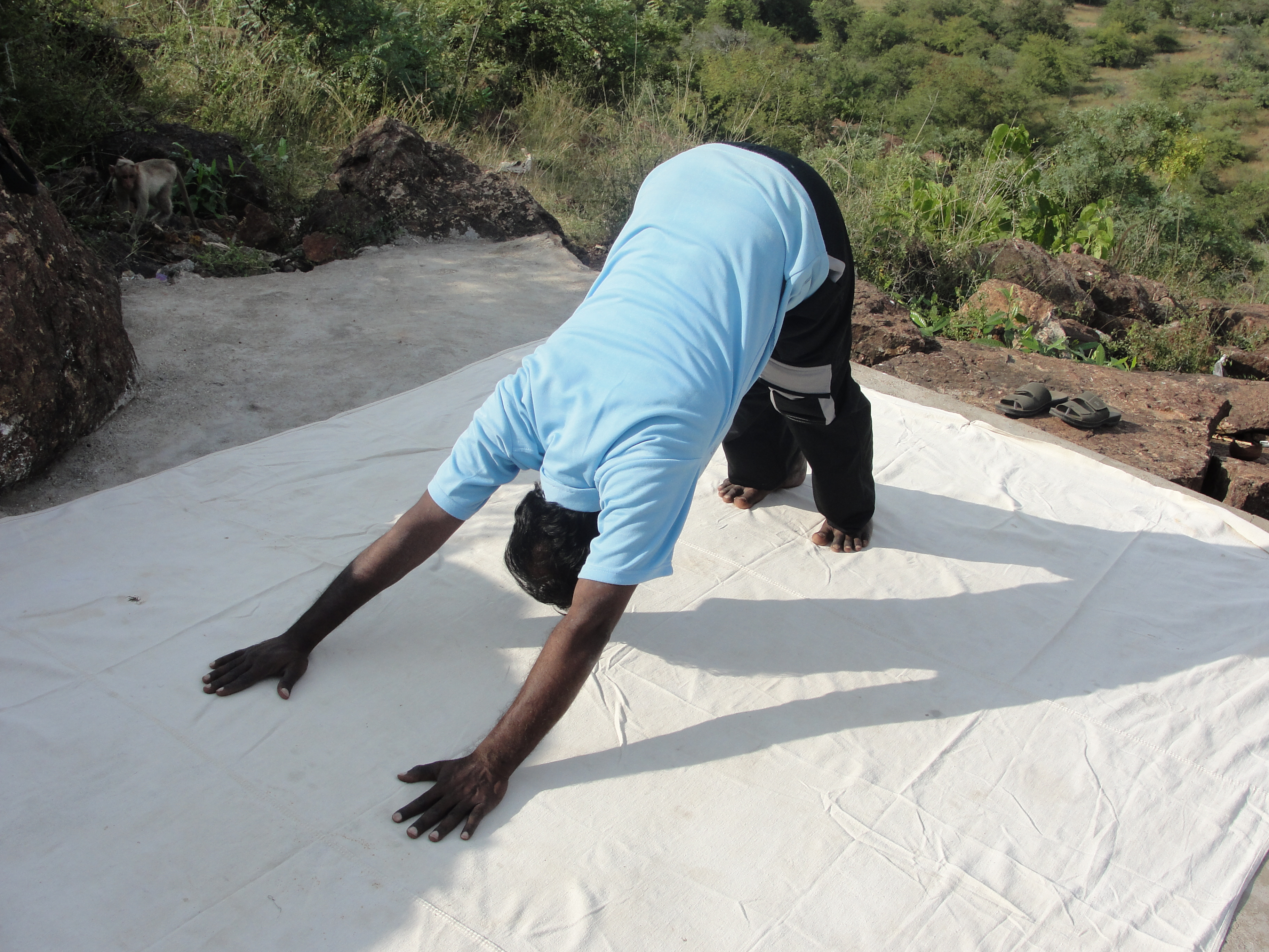 A view of Surya namaskar position 8Unknown கதிரவன் (சூரிய) வணக்கம் நிலை 8